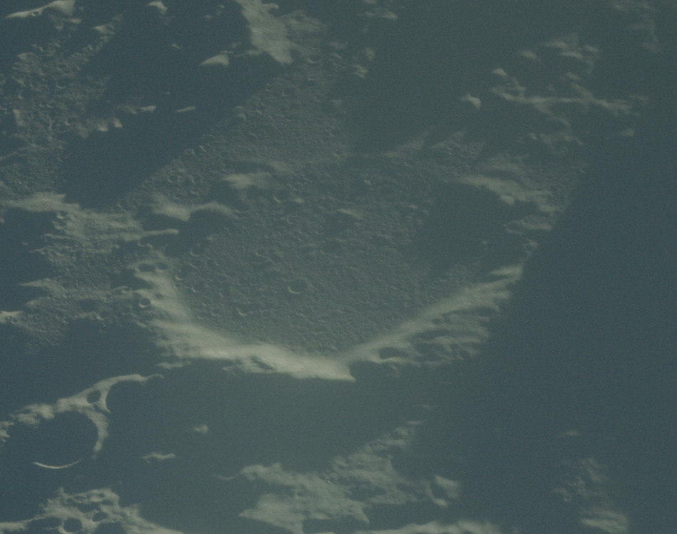 Oblique view of Dembowski crater, near the sunrise terminator, on the moon.